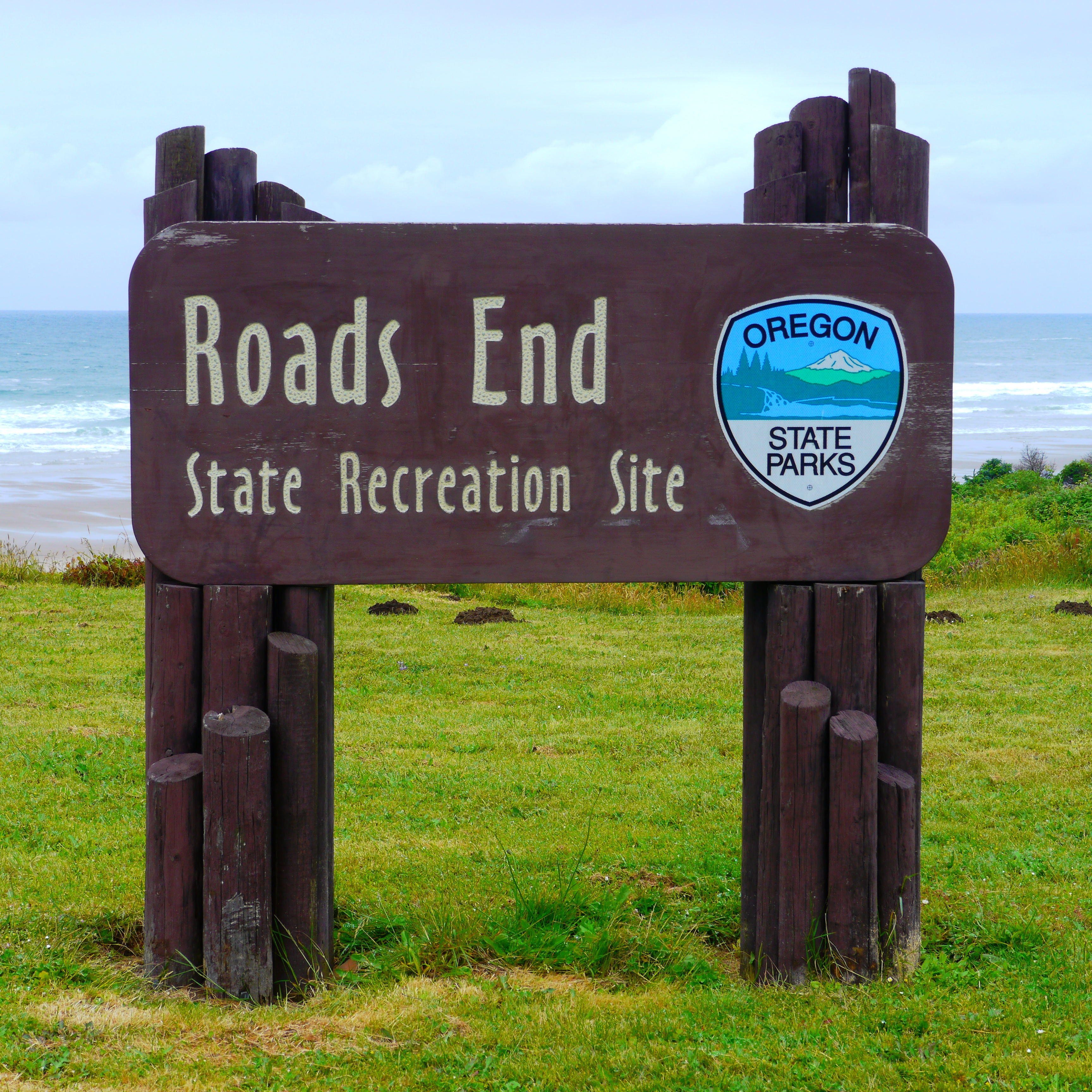 Beverly Beach State Park is a state park in the U.S. state of Oregon located 5 miles north of Newport. It is a full R.V. hookup camping area with showers, bathrooms, beach access, and a meeting hall where evening interpretive programs take place.